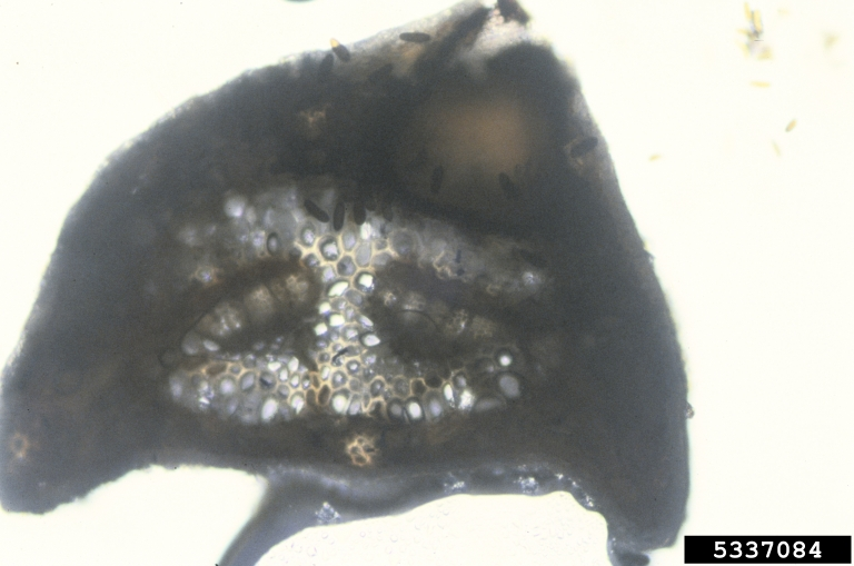 microscopic view of cross-section of needle with fungal pycnidia (Pinus nigra Arnold), United States